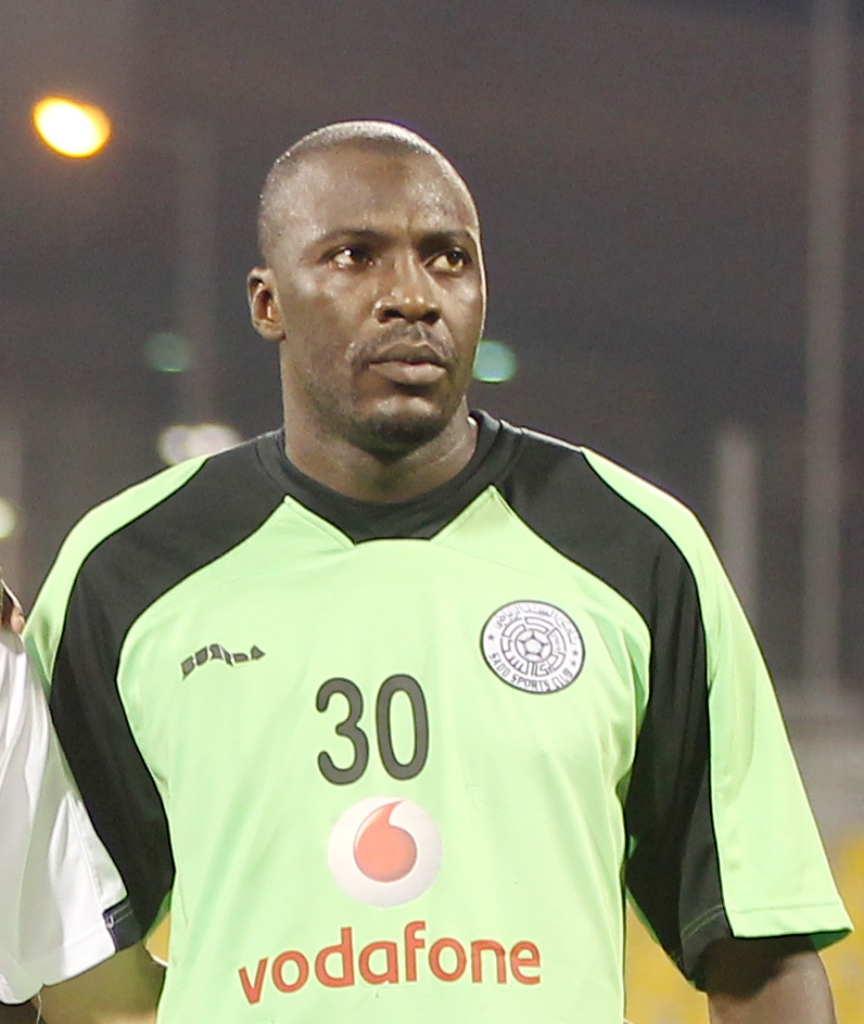 Members of the Al Sadd football team form a huddle prior to the start of their Qatar Stars League match. Picture by Mohan